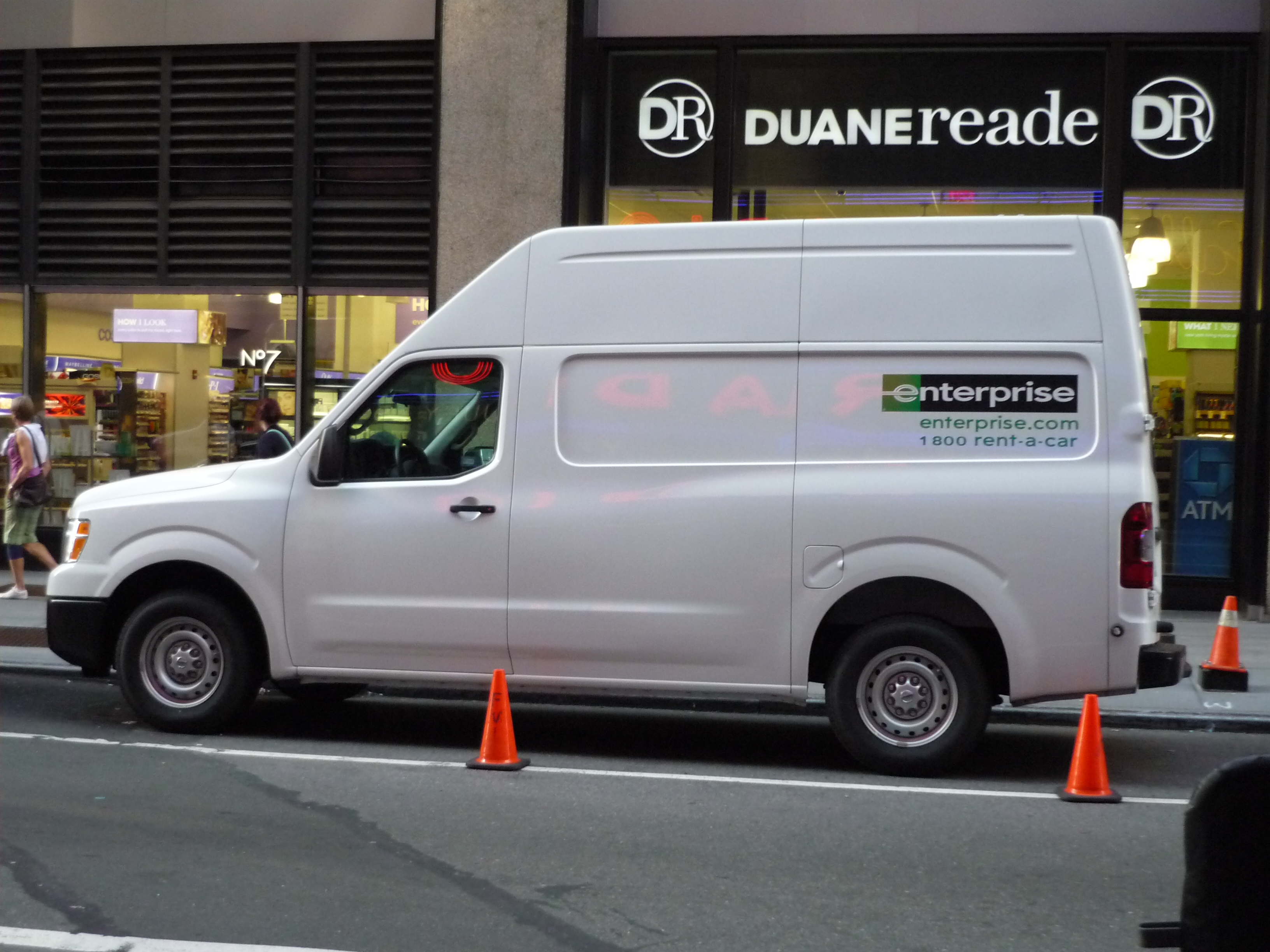 An NV parked in Midtown Manhattan. I've never been particularly fond of this vehicle: aside from looking strange, it also looks dated. Ford and Chrysler replaced their dated old-school American work vans with new models (the Transit in Ford's case and a rebadged Mercedes and then Fiat in Chrysler's) that emulated the more efficient, modern European style of work van common in other parts of the world. I was hoping that Nissan would follow that trend and bring over a rebadged Renault or something, but instead we got this thing. Shame.